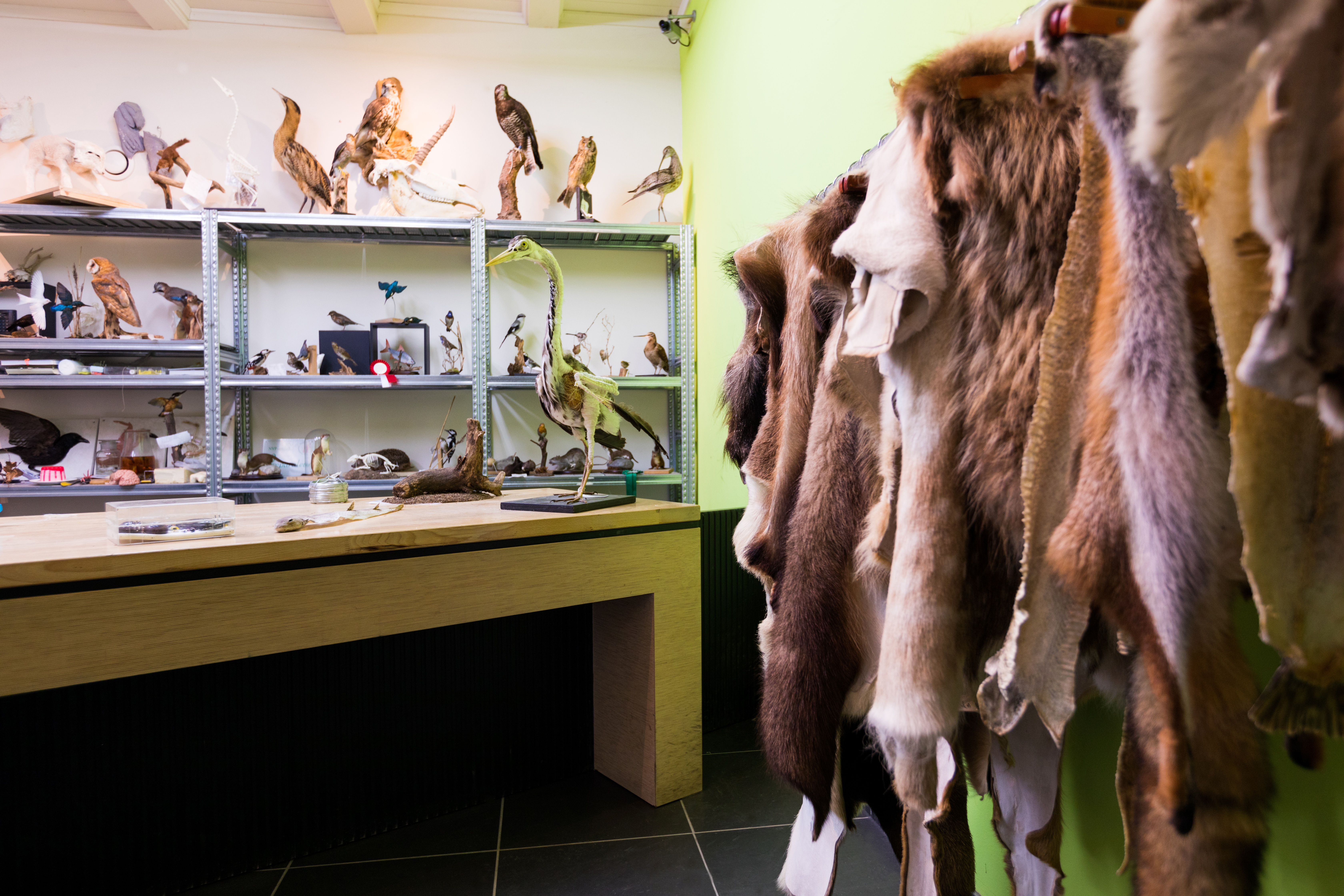 The Nature Museum Fryslân has its own preparation team. In the Open Atelier, the preparers set up all kinds of animals, from sparrow to elephant. Visitors are welcome to come and have a look. The preparers like to explain what they are doing: putting up a bird or mammal, preparing a skeleton, or making models and casts.